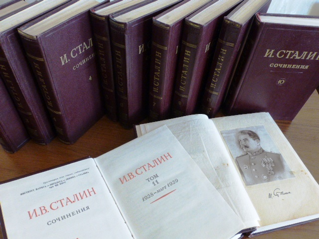 Selected works of Joseph Stalin